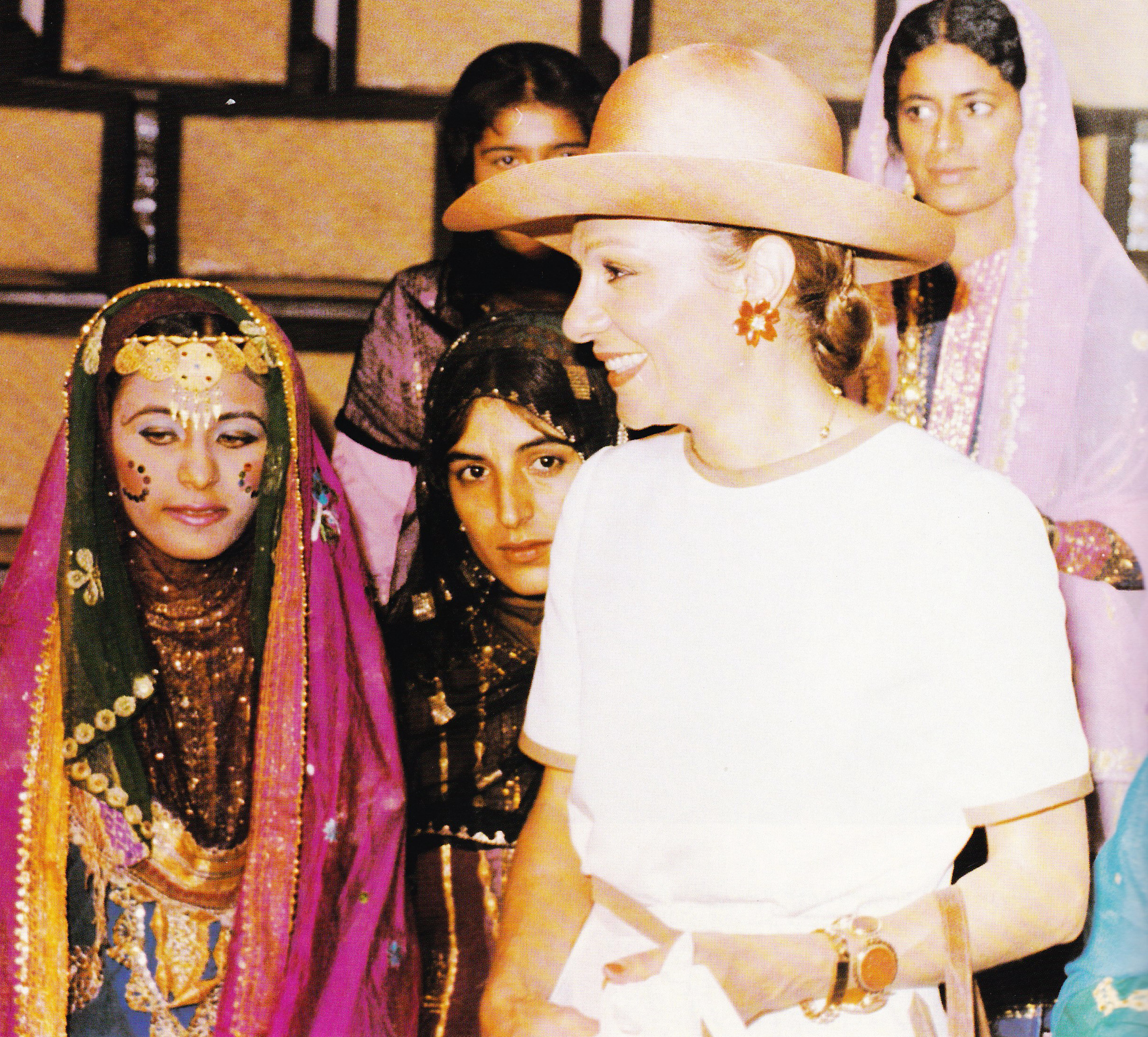 Shahbanu Farah Pahlavi visits Bandar Abbas, Iran